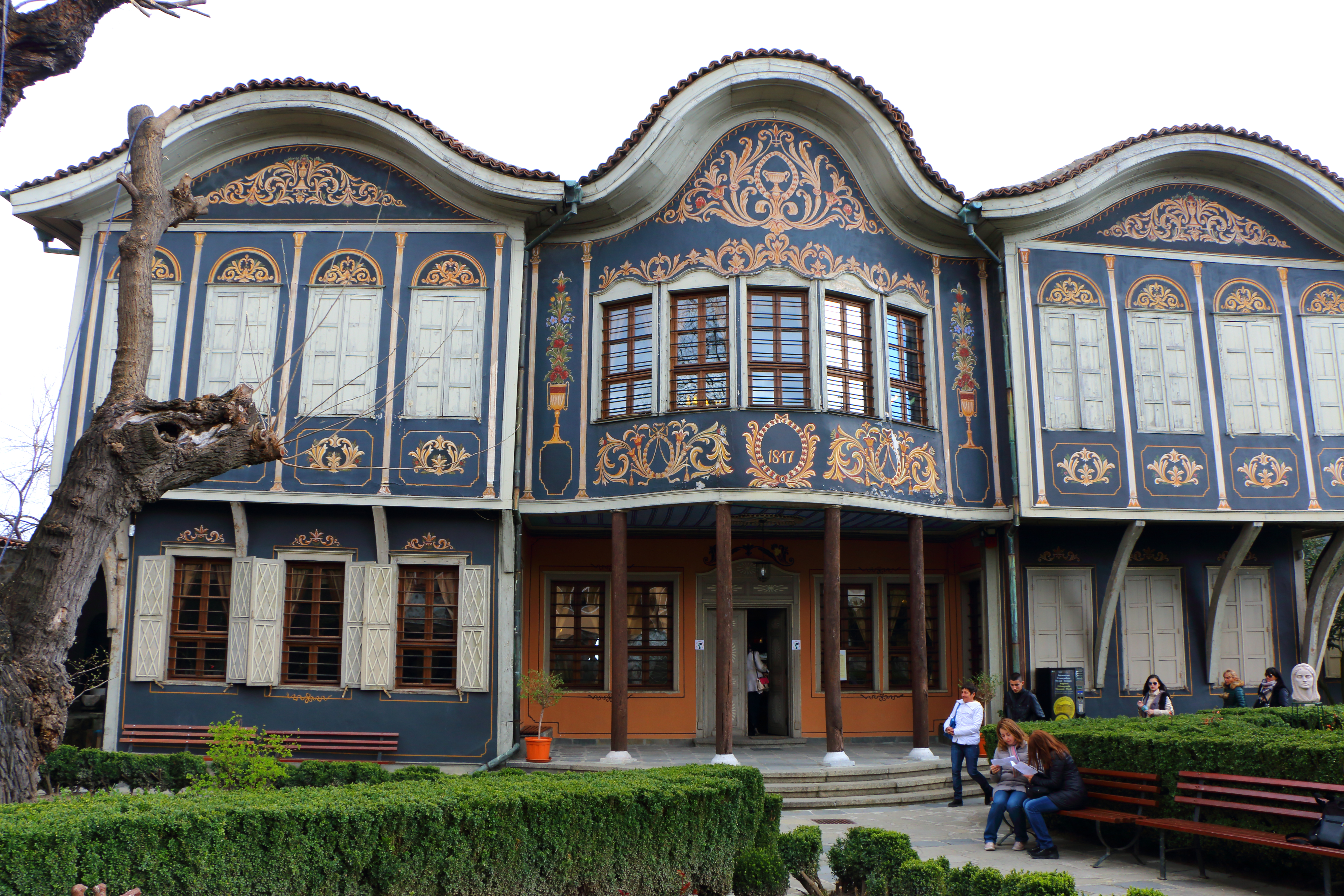 Ethnographical museum in Plovdiv